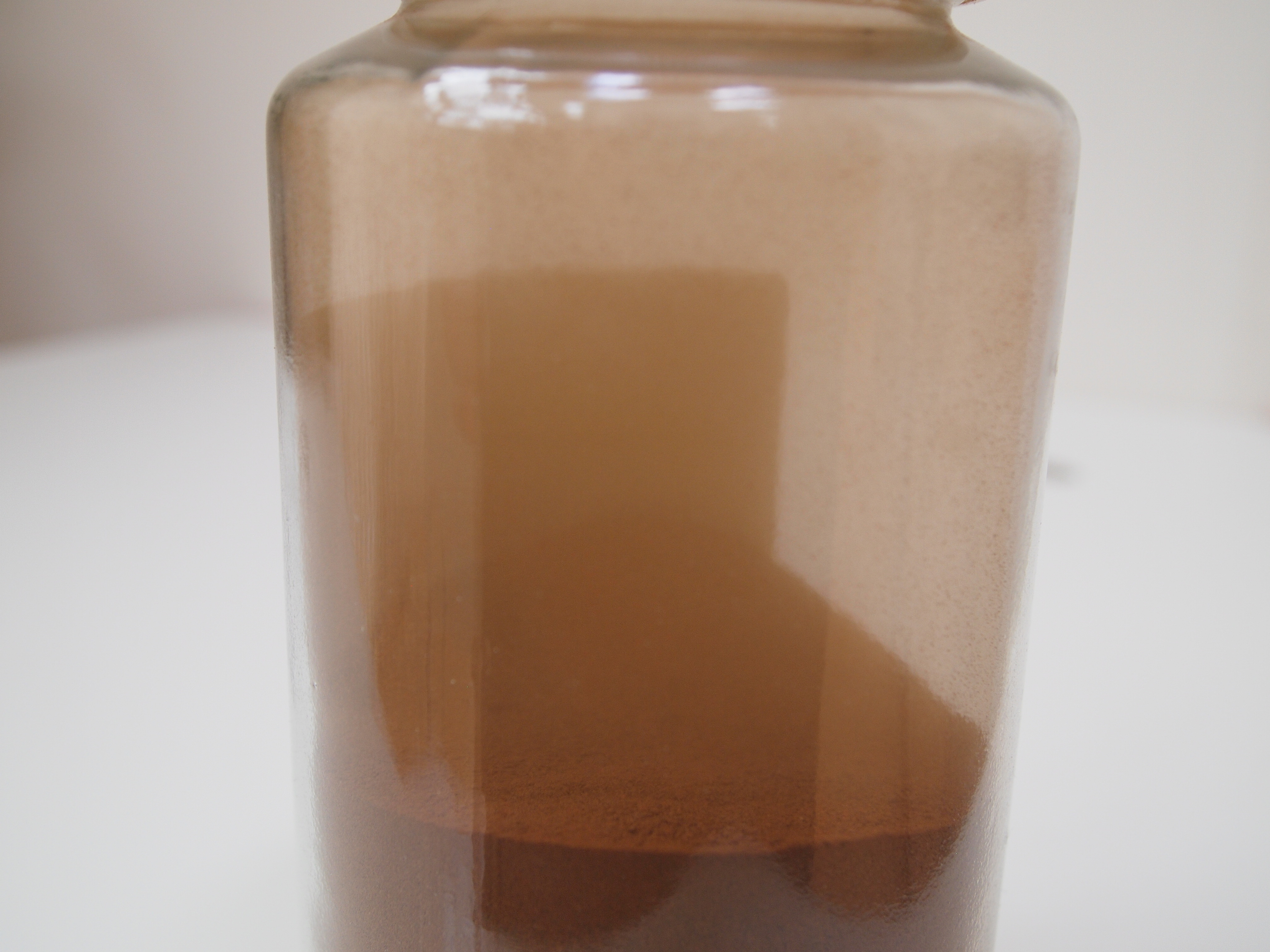 Fine dusts of martian regolith simulant JSC MARS-1A inside a container